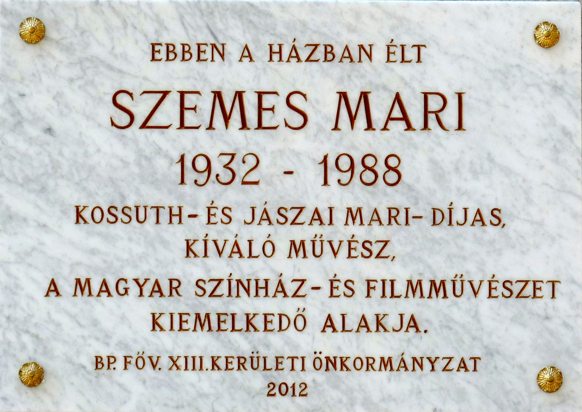 Commemorative plaque to Mrs. Mari Szemes (1932-1988) Hungarian actress, affixed on the wall of his former home in Budapest. (Budapest, District XIII, Katona József Street Nr 26).